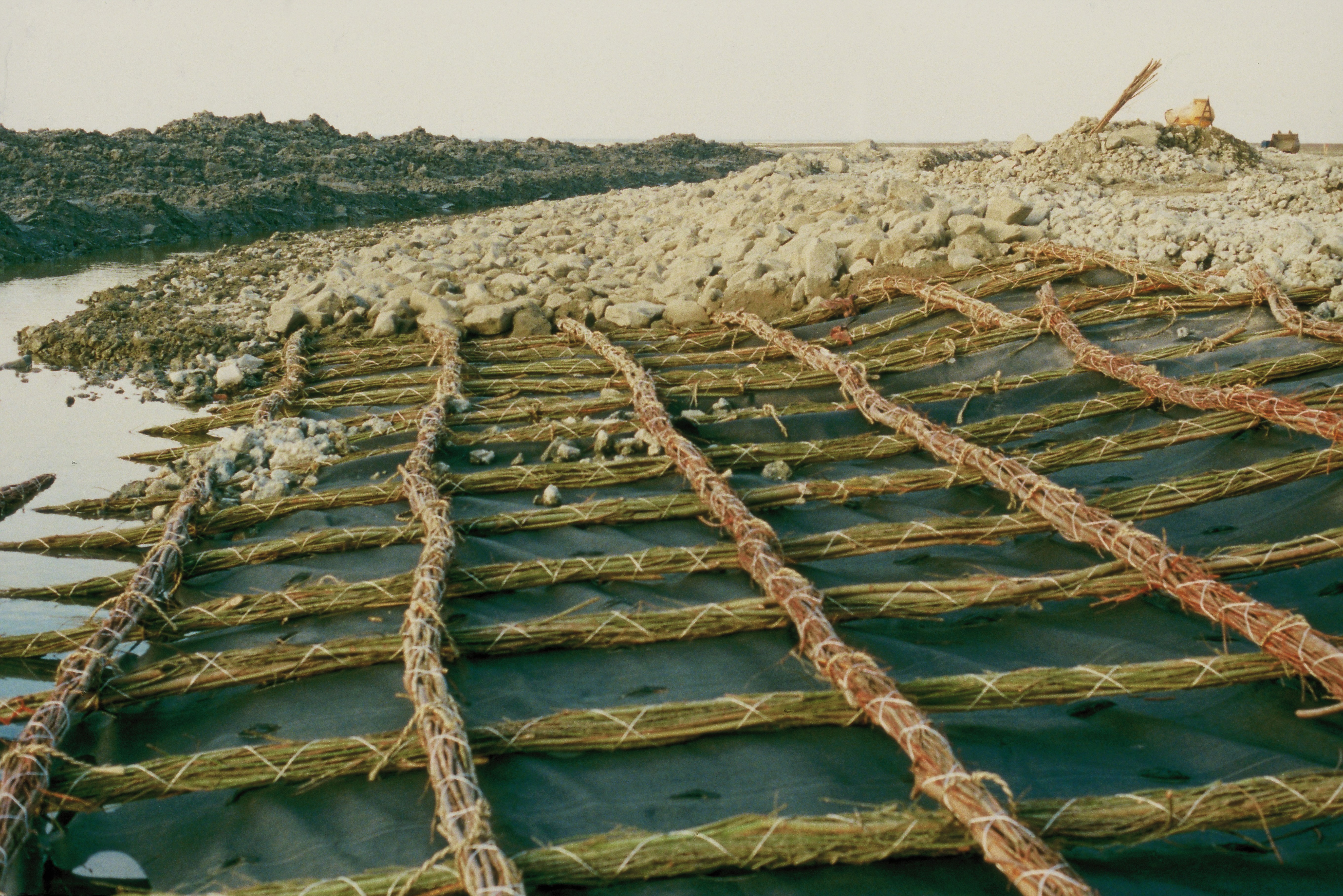 Polypropylene mattress to protect a shoreline of the Schelde-Rijn connection, photo DWW_230142